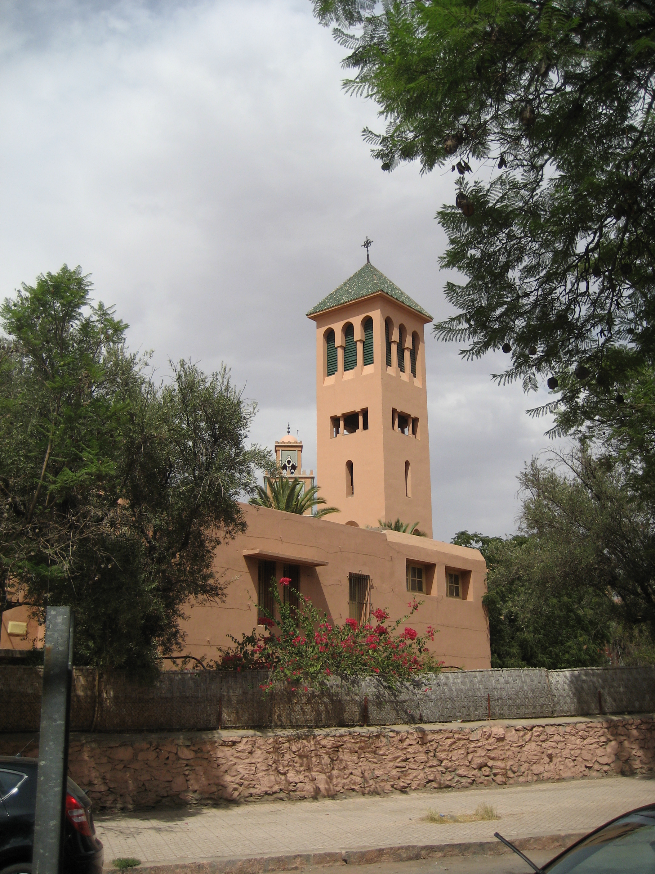 Roman catholic church in Marrakech (Eglise des Saints Martyrs) (Morocco)